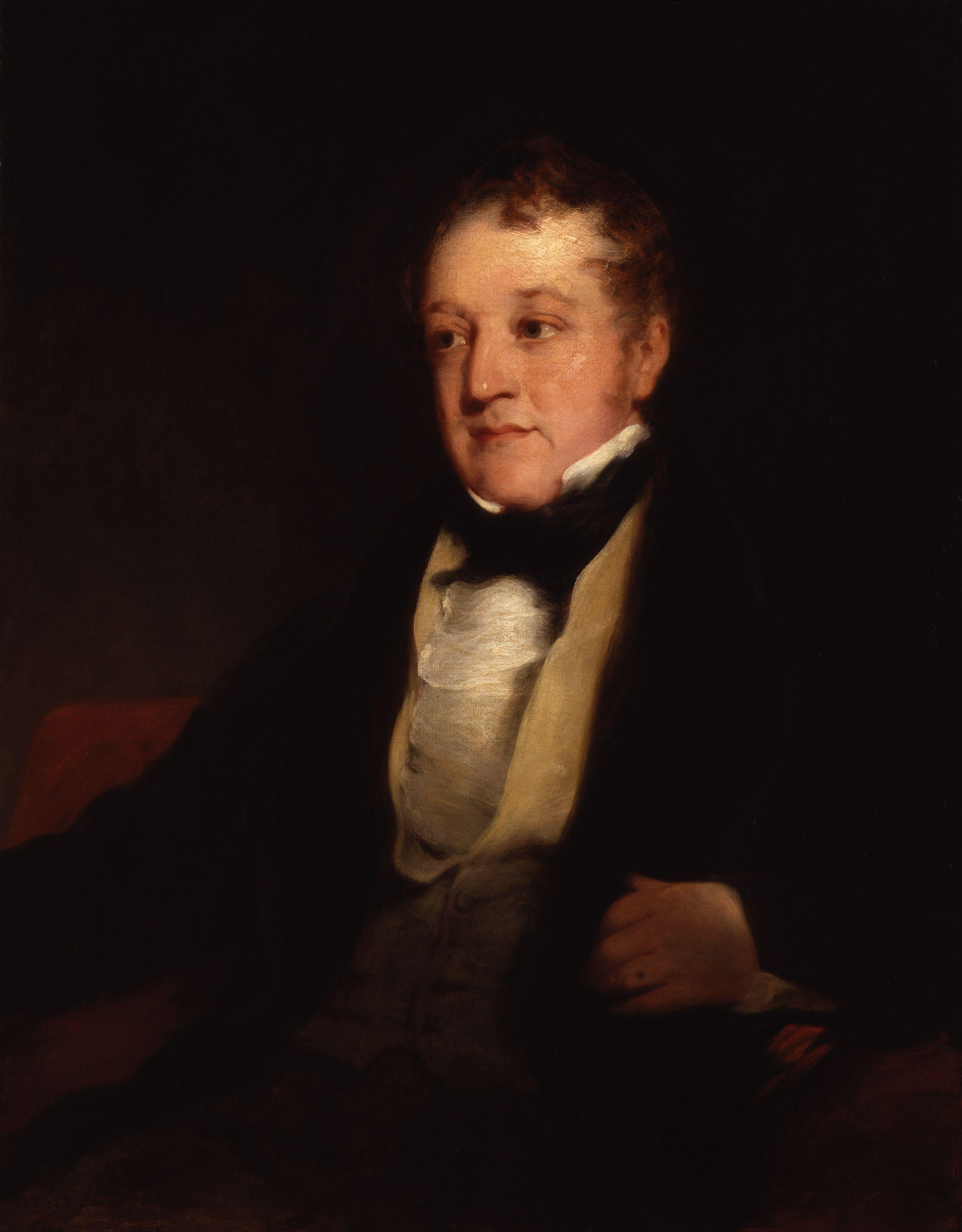 Portrait of William Huskisson. Killed by "Rocket".... All images in this batch have been confirmed as author died before 1939 according to the official death date listed by the NPG.